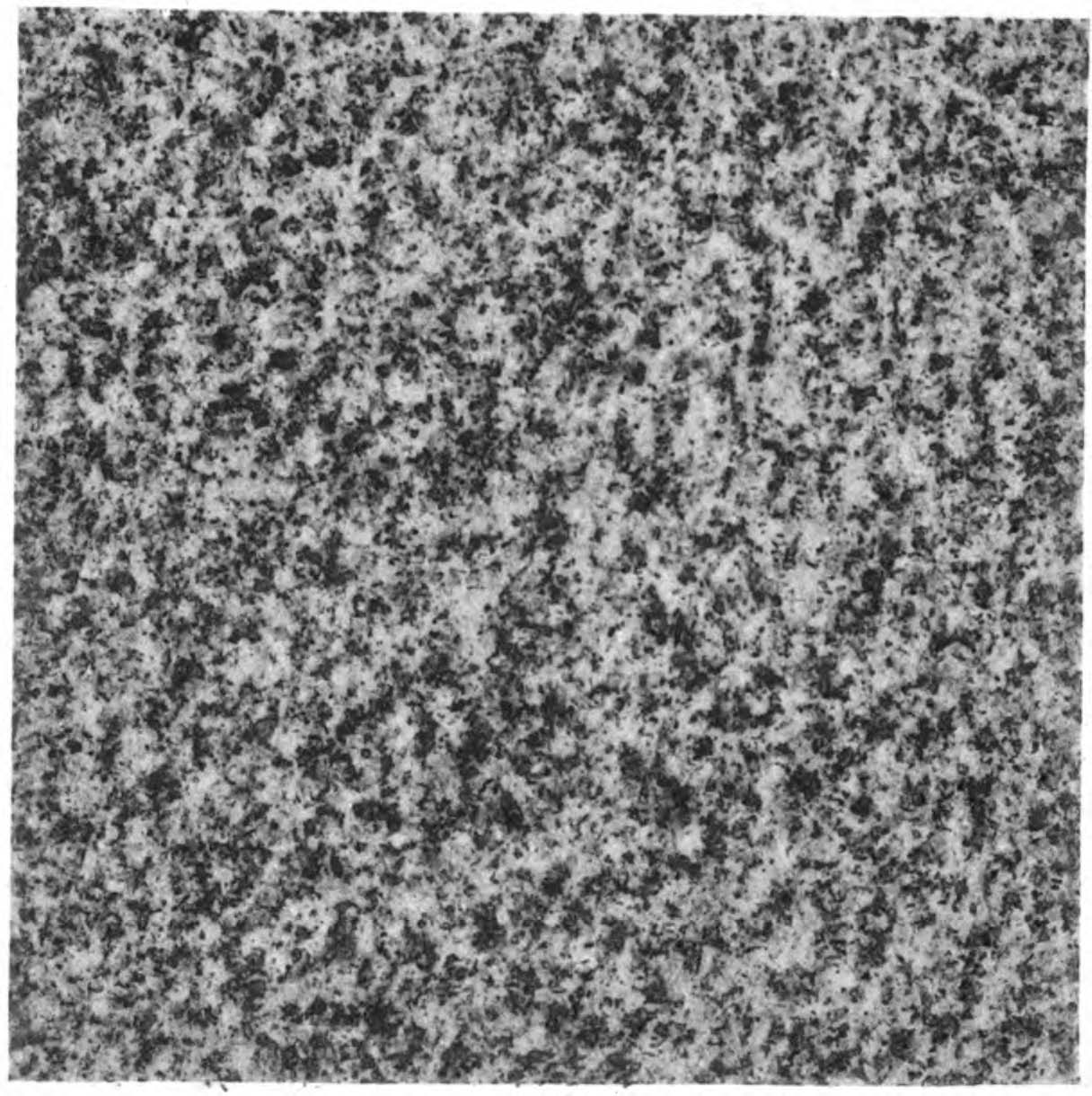 Plate XVI of 1898 publication called Maryland Geological Survey Volume Two, with caption "FINE-GRAINED GRANITE, Guilford, Howard County." It shows what is now called the Guilford Quartz Monzonite. Width is approximately 10.7 cm.